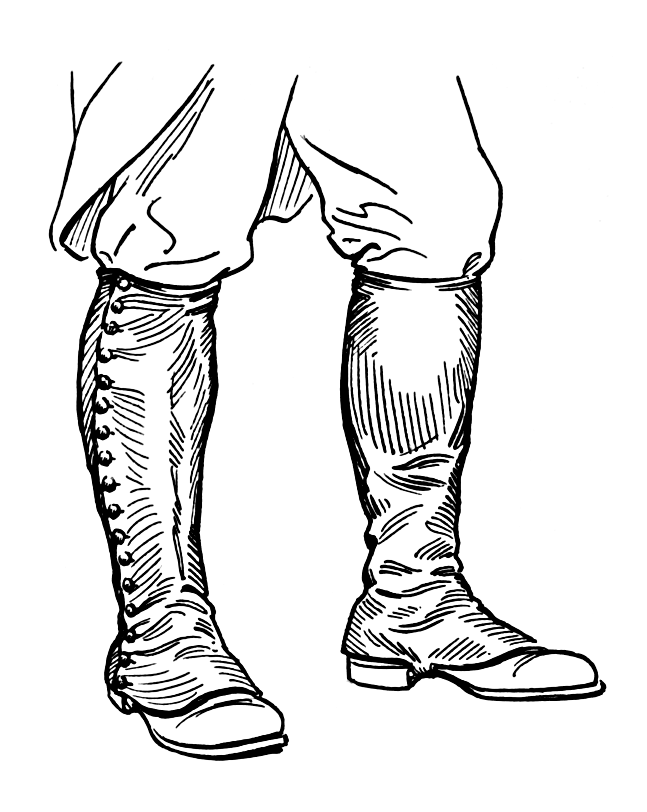 Line art drawing of spatterdash (gaiters).